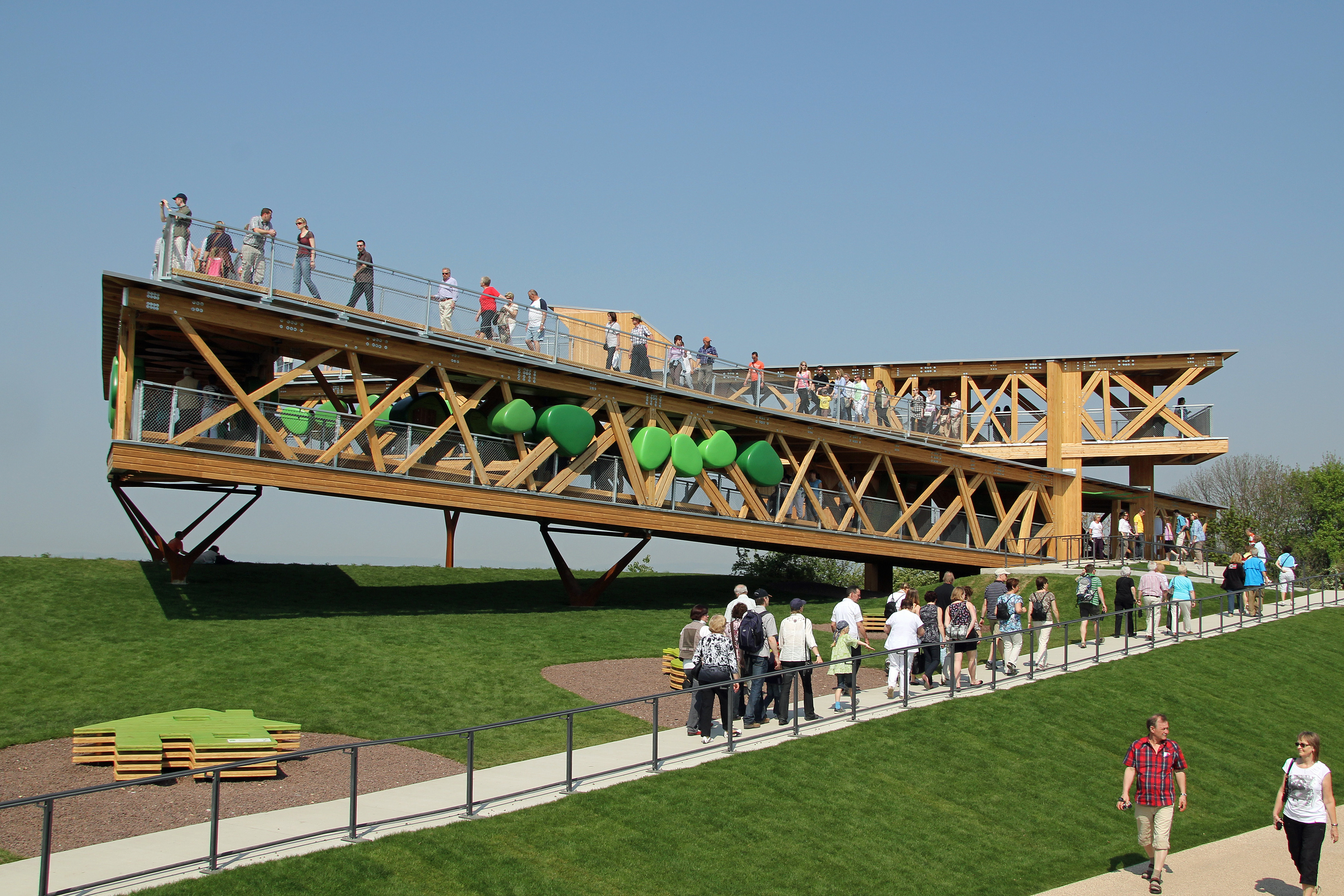 Federal Horticultural Show 2011 in Koblenz - Ehrenbreitstein Fortress